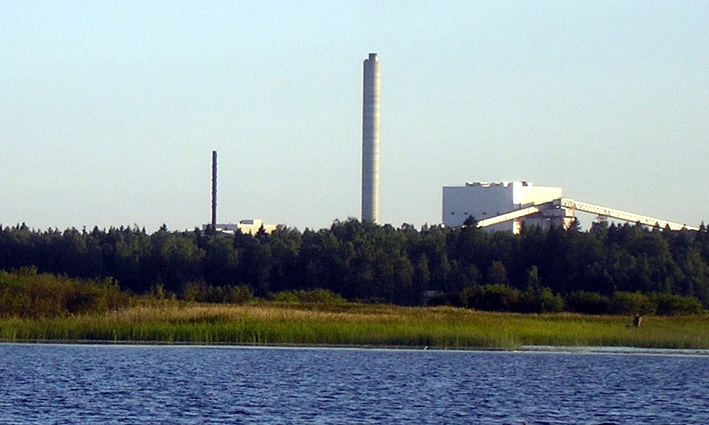 Alholmens Kraft Biomass Power Station in Jakobstad, Finland pictured from Larsmo